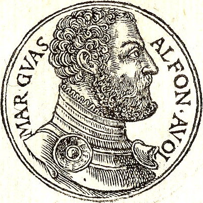 Alfonso d'Avalos d'Aquino, 4th Marchese di Pescara e del Vasto was an Italian condottiero.